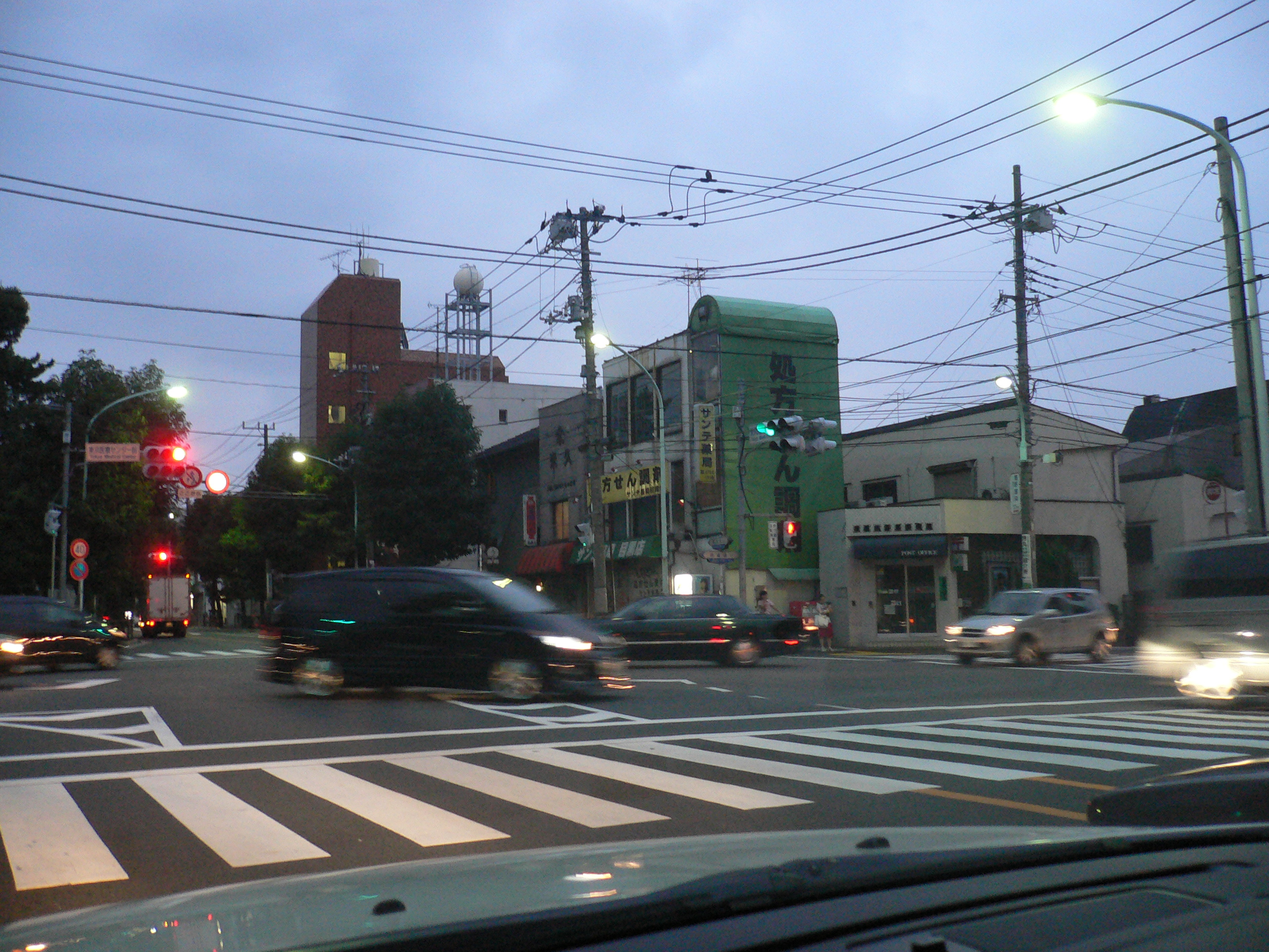 Tokyo medical center crossing (自由通り・駒沢通り), Meguro W, Tokyo M.